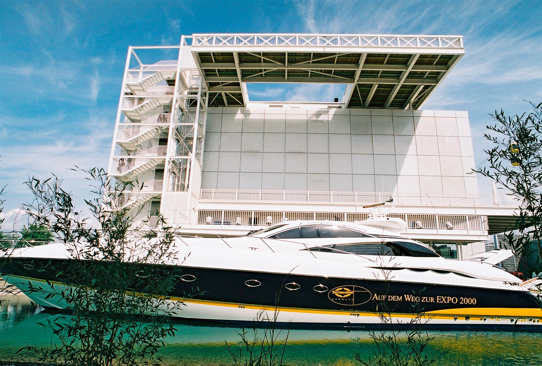 Monaco Pavilion by Architect Hans Ferdinand Degraeuwe